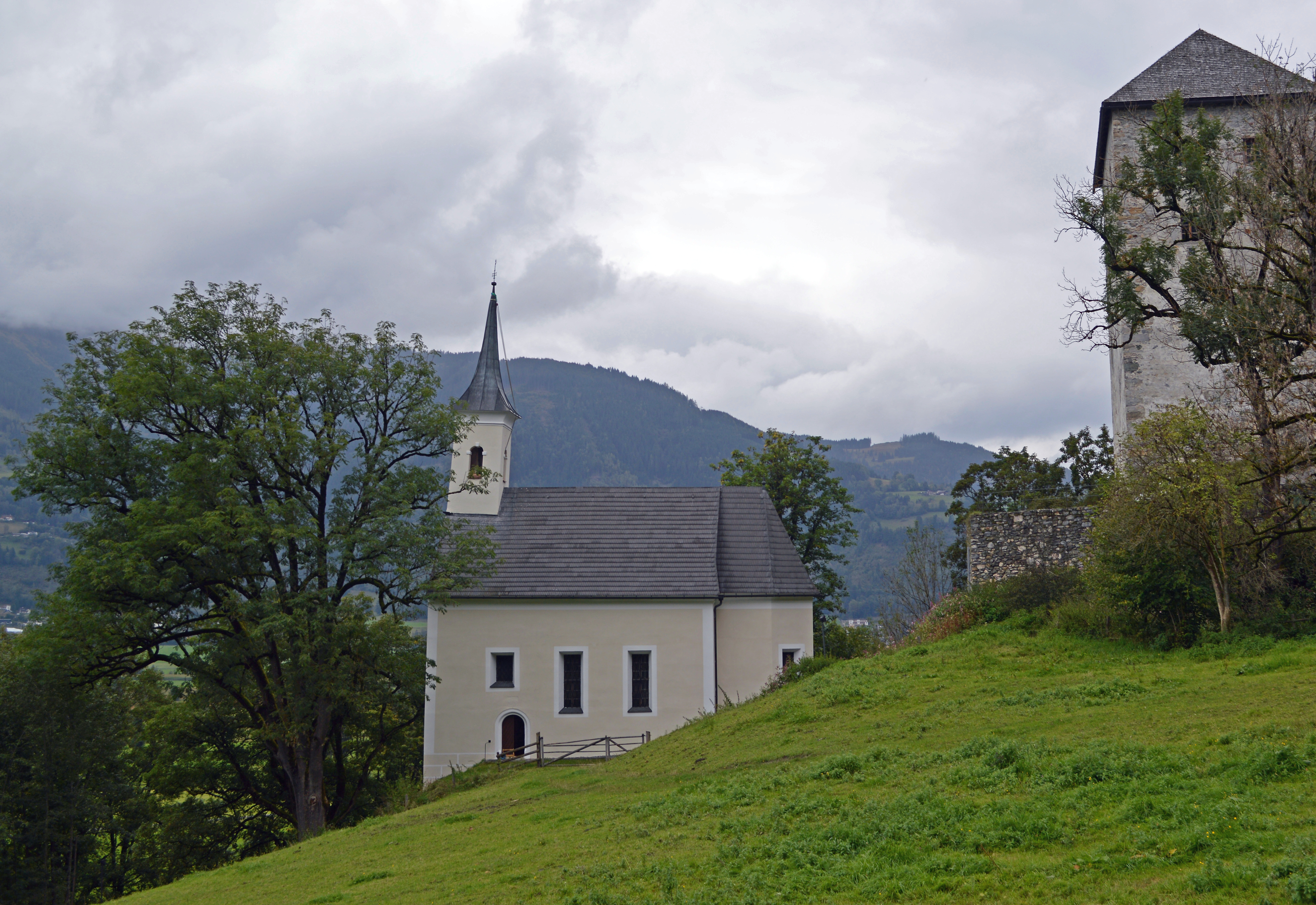 Chapel Saint Jakob at the Kaprun Castle in Kaprun, Salzburg (state), Austria Dieses Bild wurde anlässlich des österreichischen Tags des Denkmals 2014 in Salzburg eingereicht.